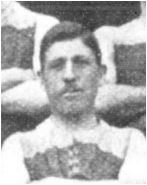 Photo of Rupe Bradley in 1904